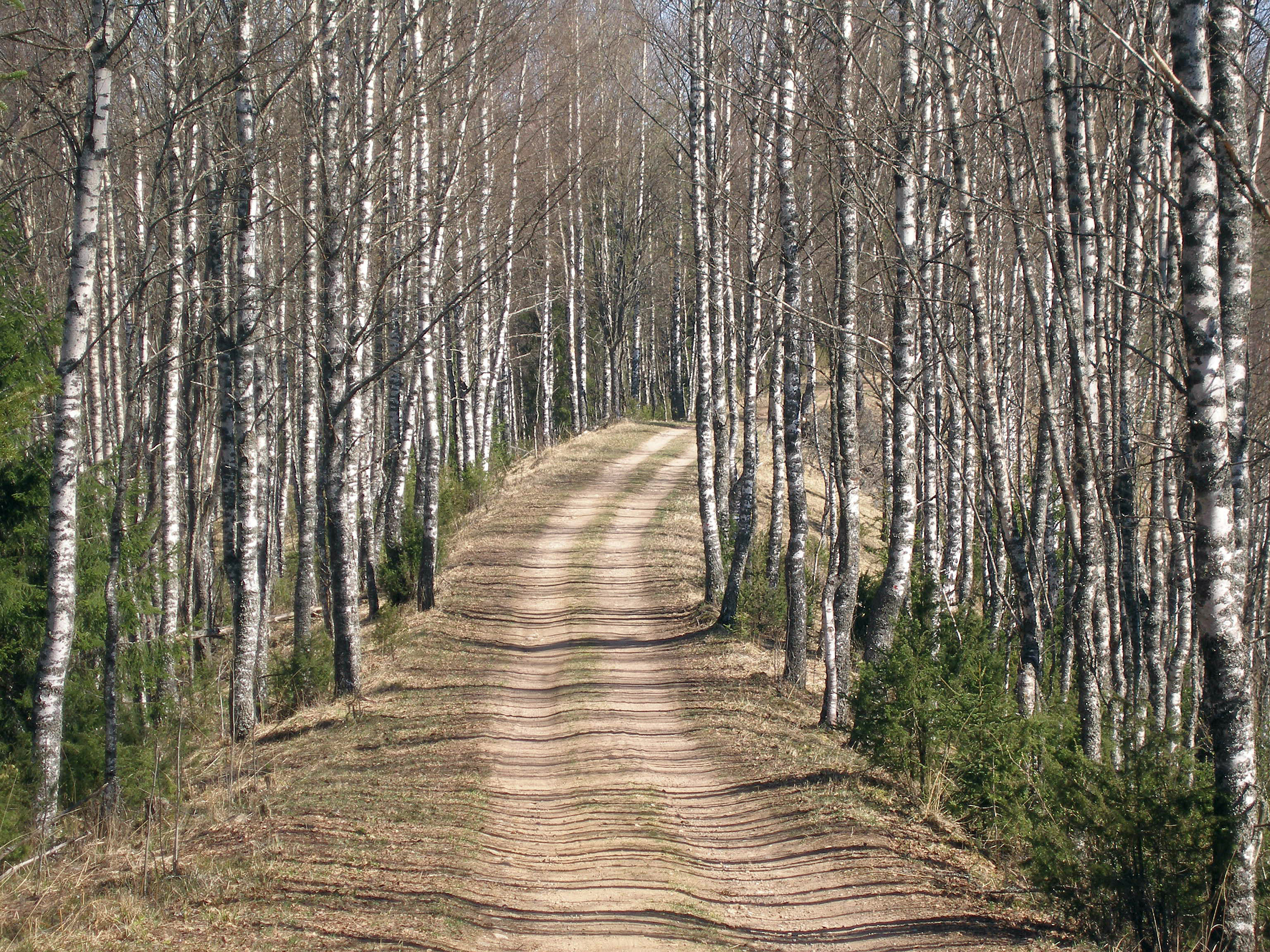 A forest trail running along the top of an esker in Põhja-Kõrvemaa, Estonia.